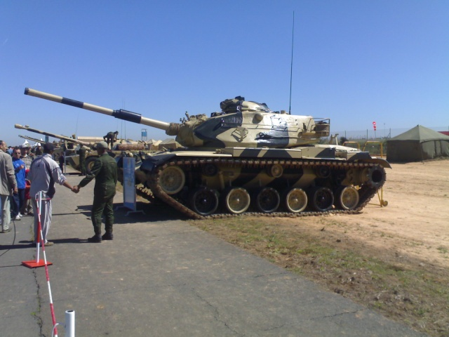 Char d'assault M-60 Patton des force armée royales marocaine